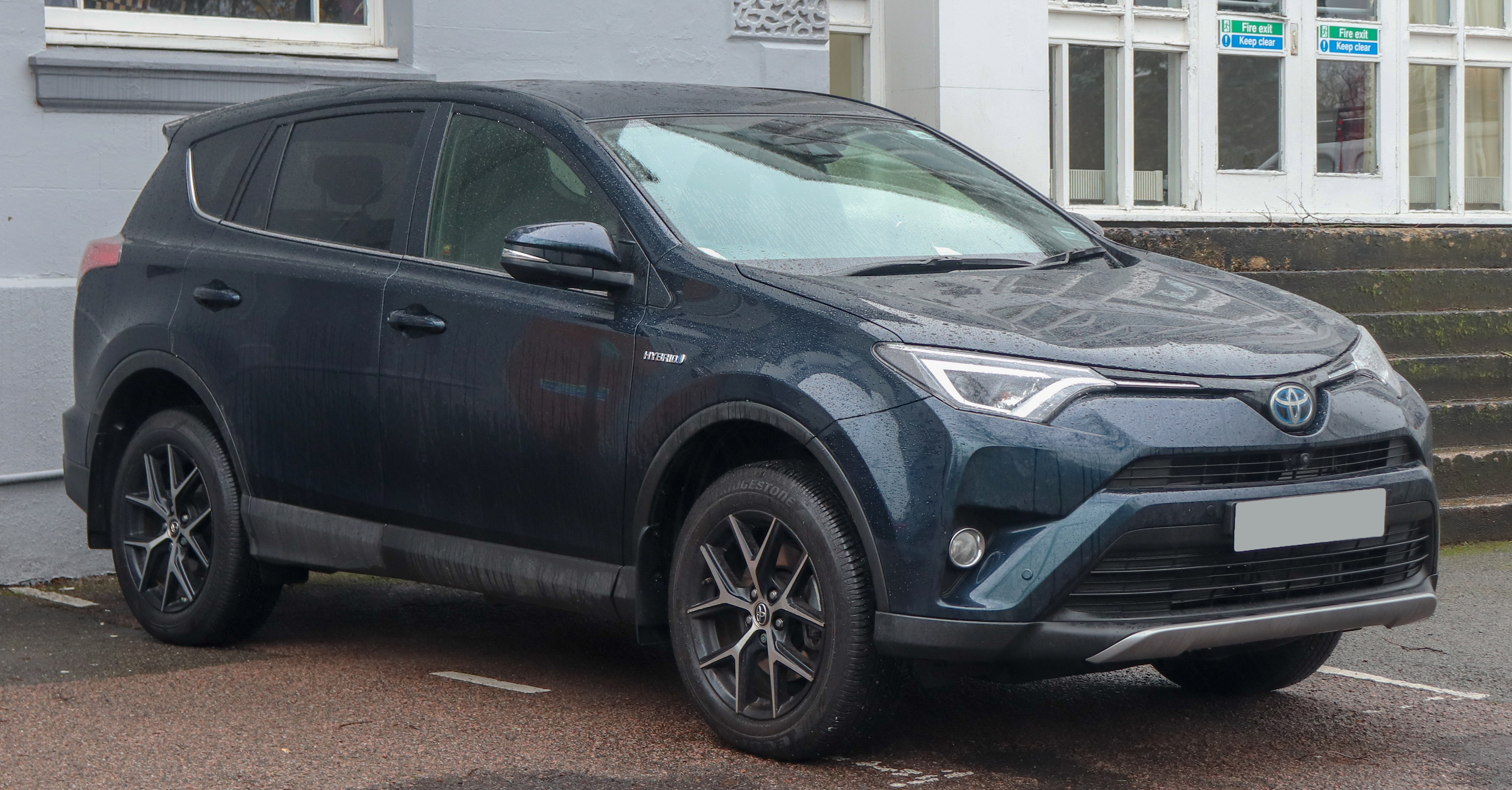 2018 Toyota RAV4 Design HEV 4X2 CVT 2.5 Taken in Leamington Spa